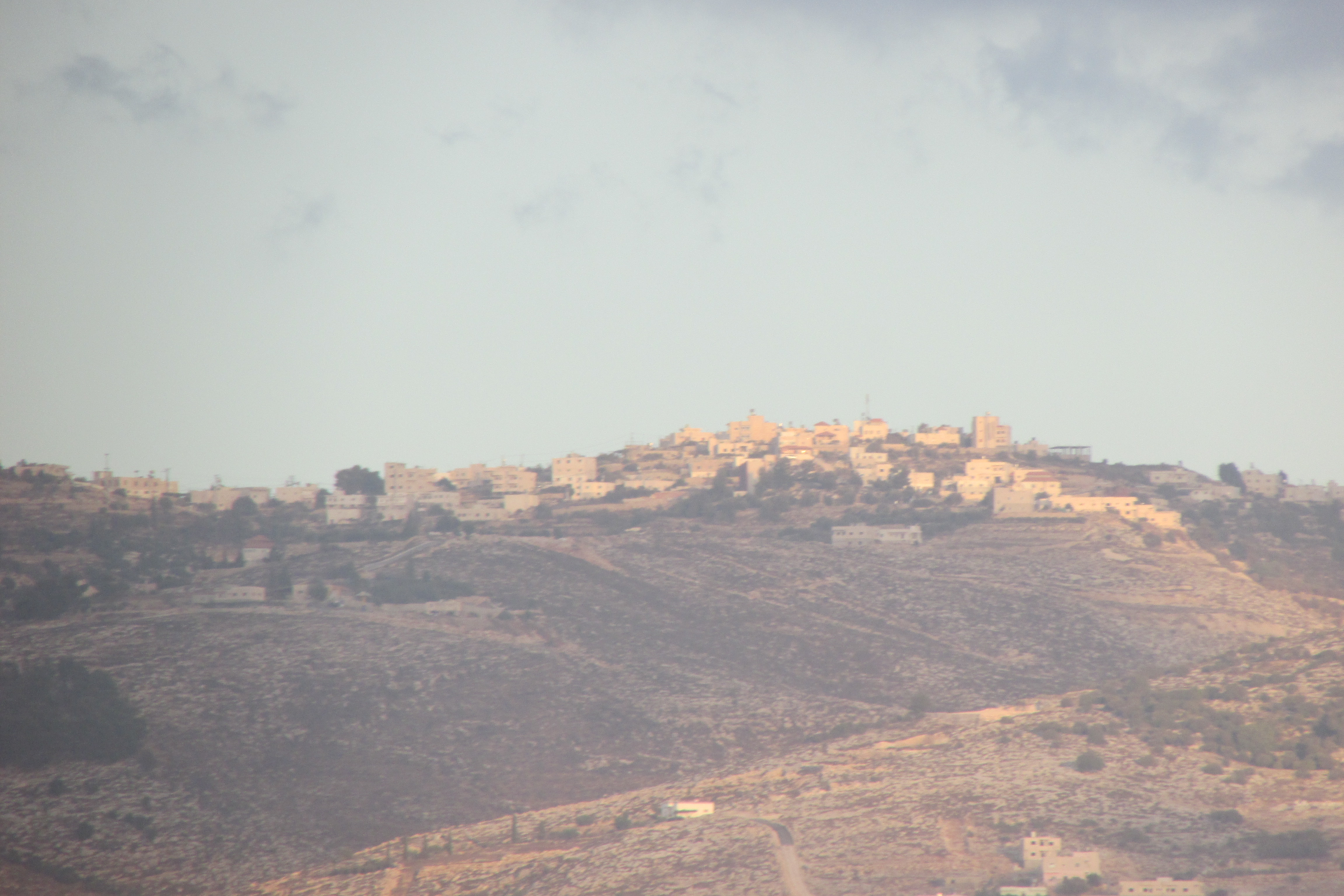 Houses in Dura, Hebron